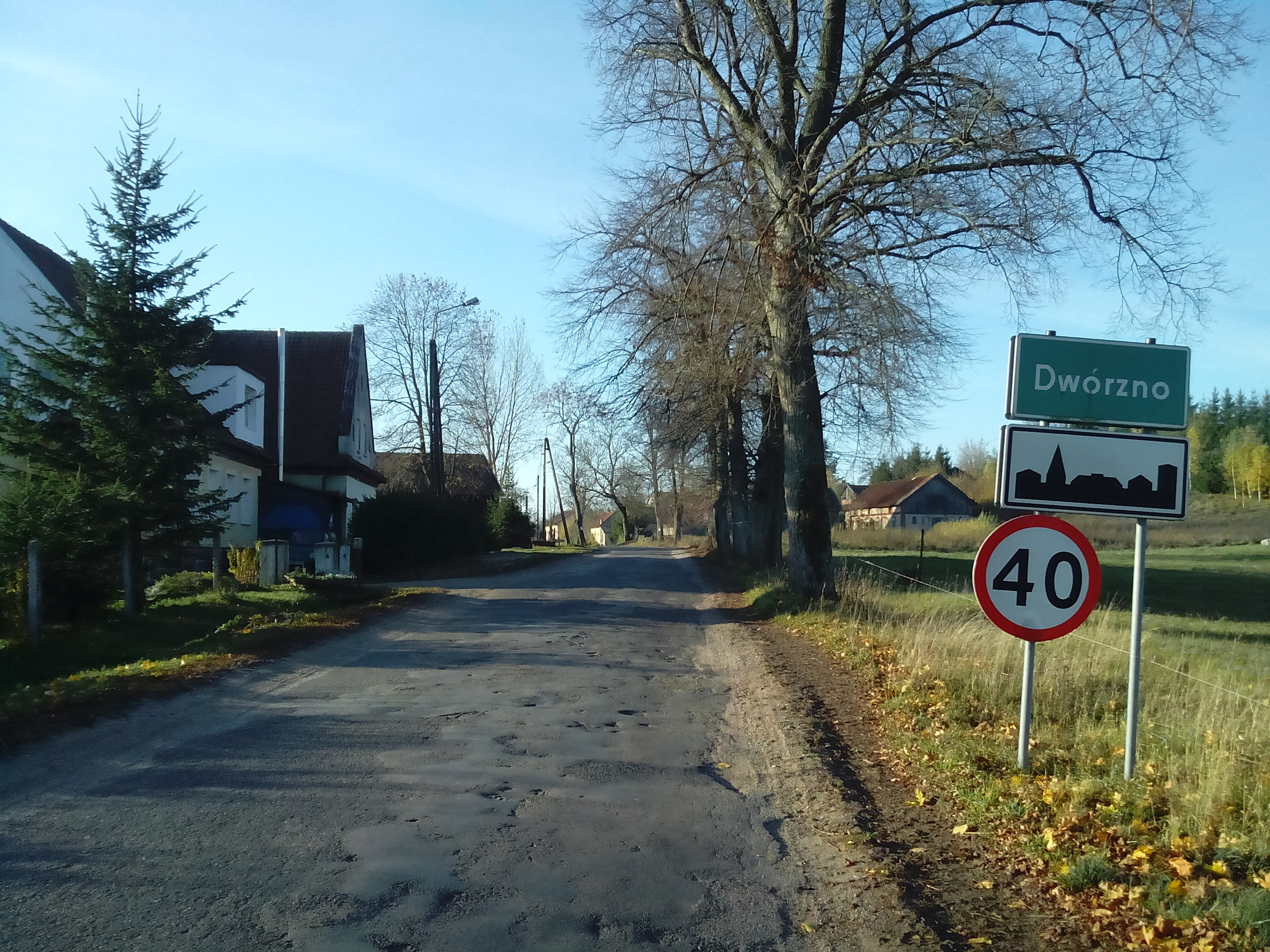 Village of Hoff (present Dwórzno) 2014